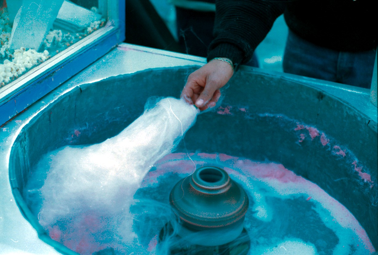 Candy floss machine at fair in Thrace, Greece. Local term is "μαλλί της γριάς".